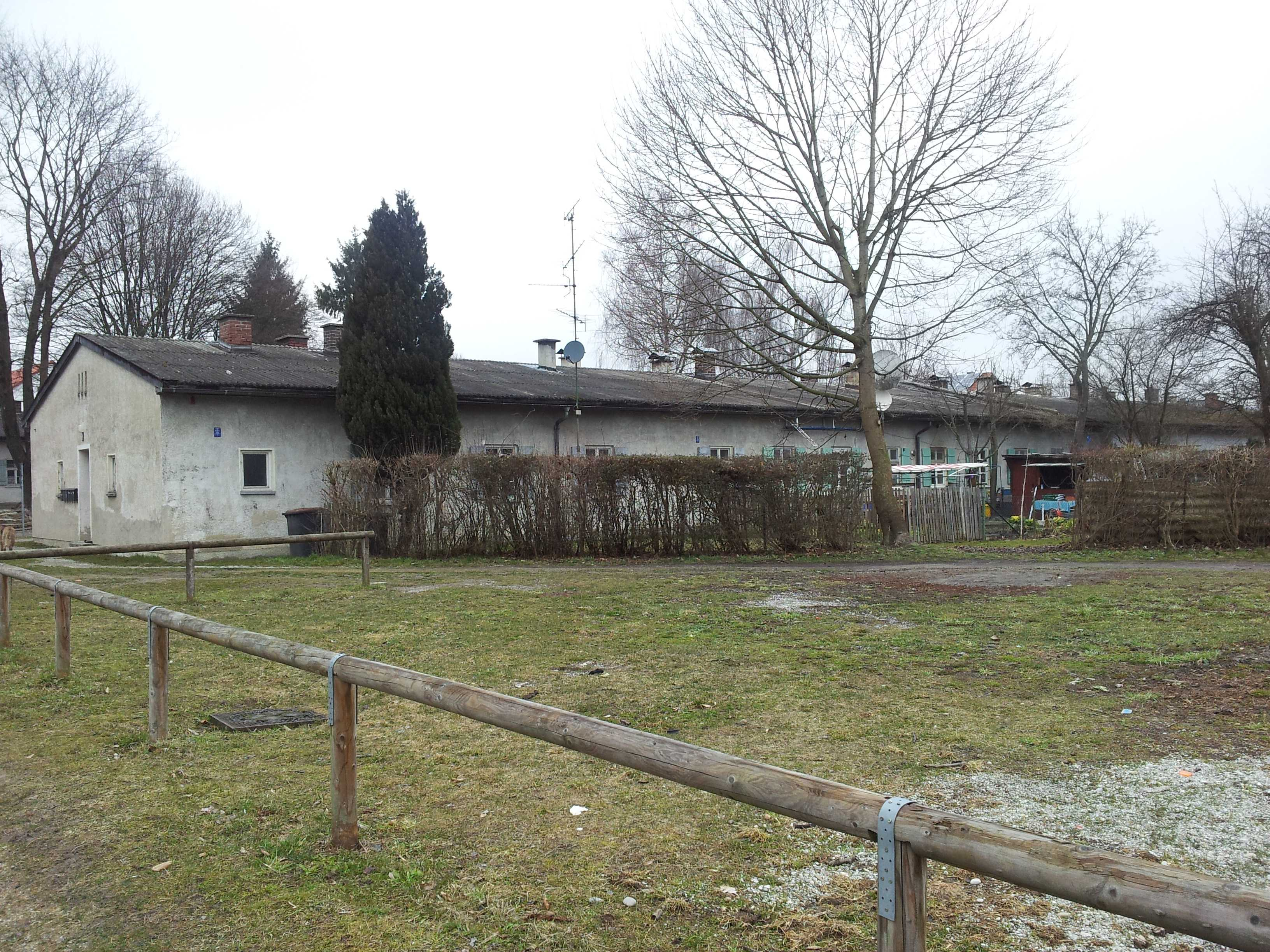 Barack 3 of the guard of Stalag VIIA in Mooseburg in 2013